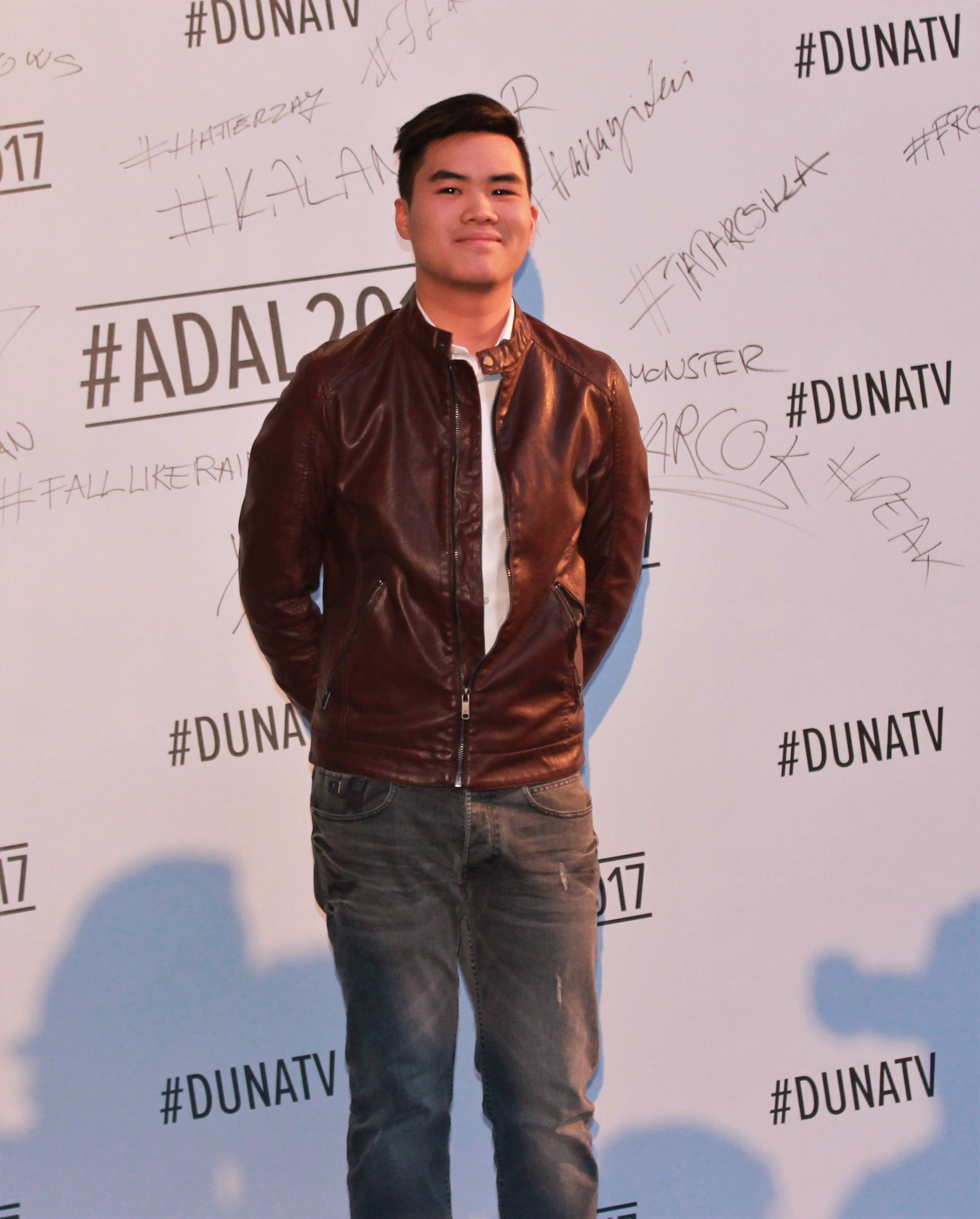 A Dal 2017 participant: Benji